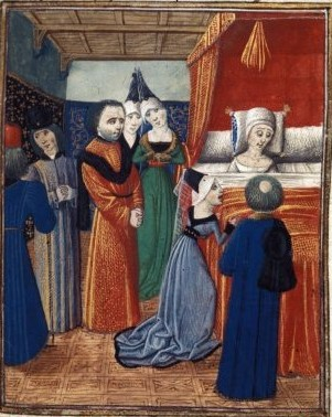 Death of Anne